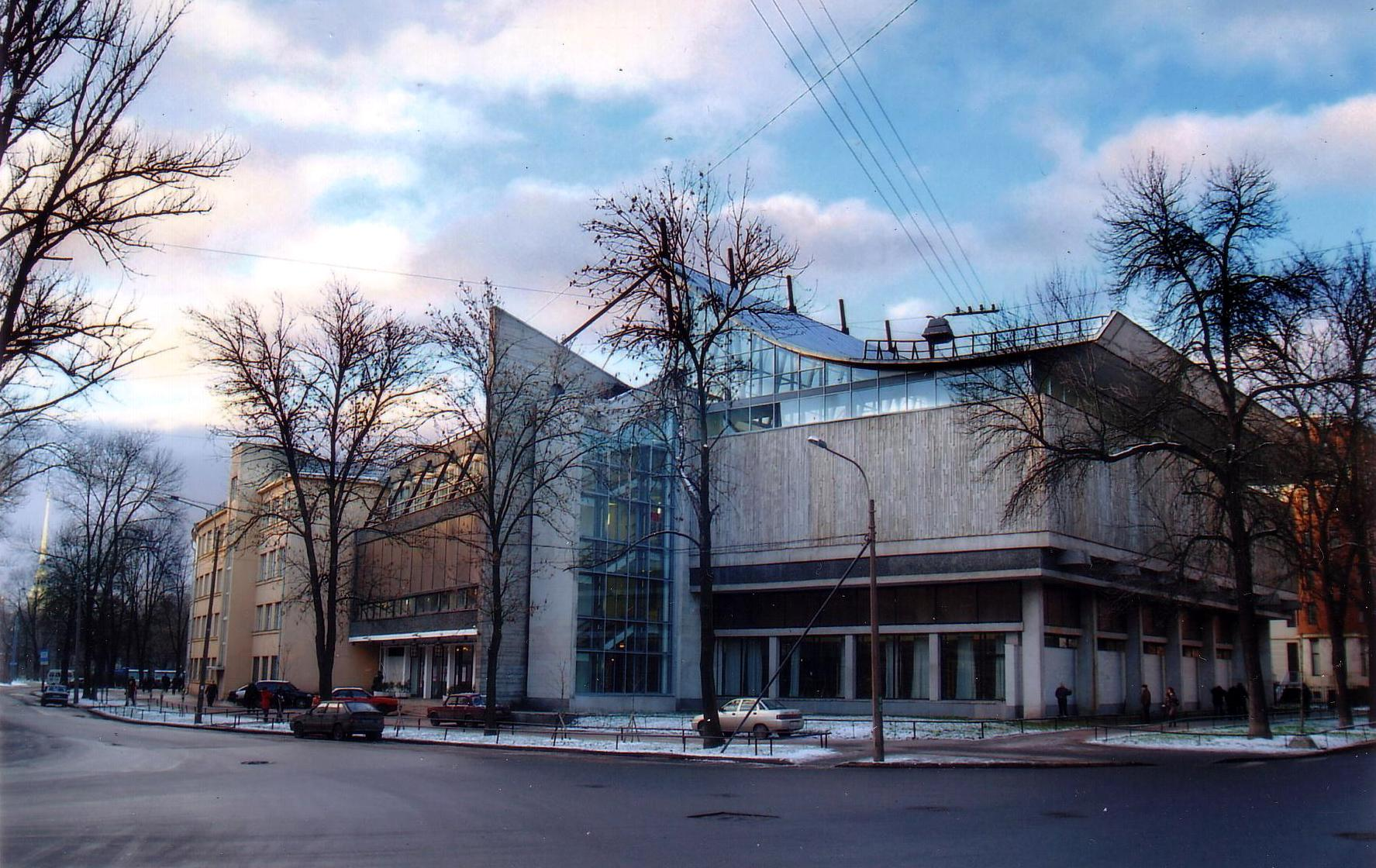 DFK PGUPS